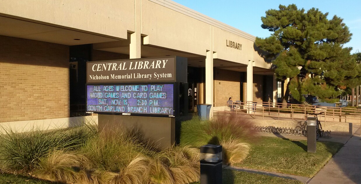 Nicholson Memorial Library System central library of Garland, Texas